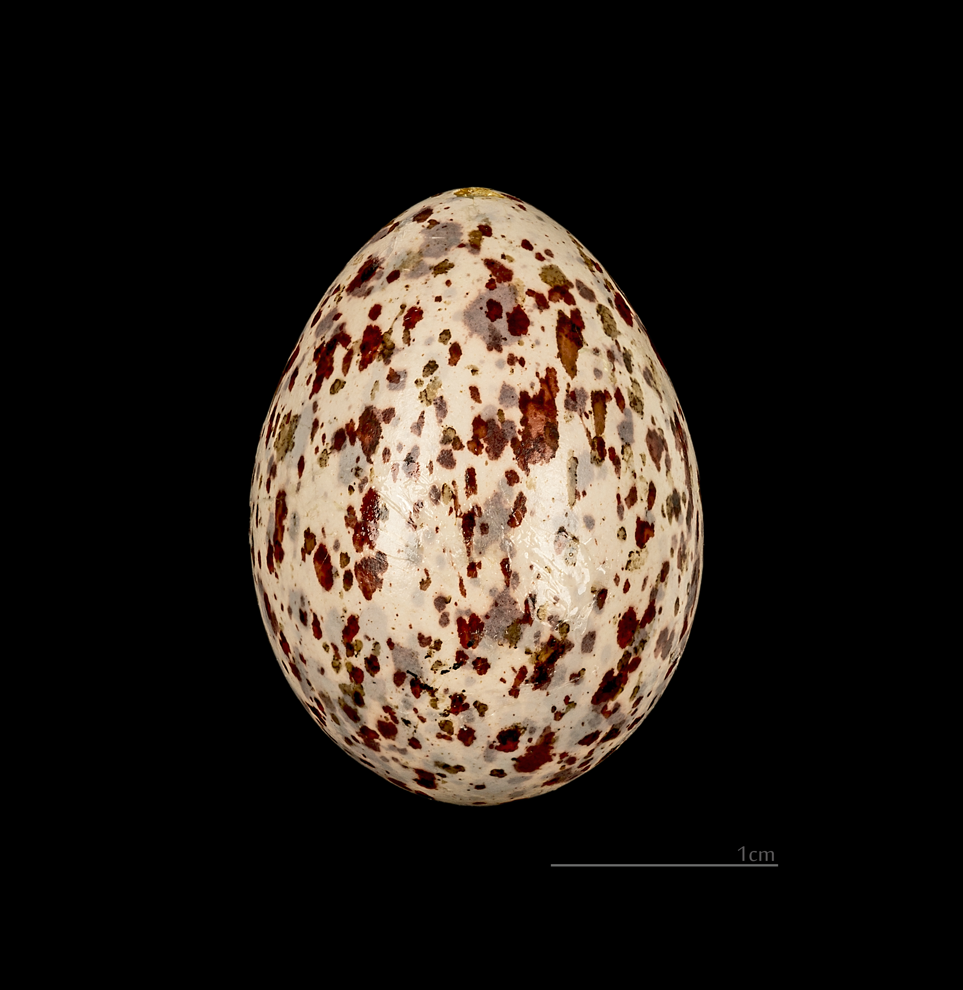 Egg of Malagasy Bulbul. Collection of Jacques Perrin de Brichambaut.